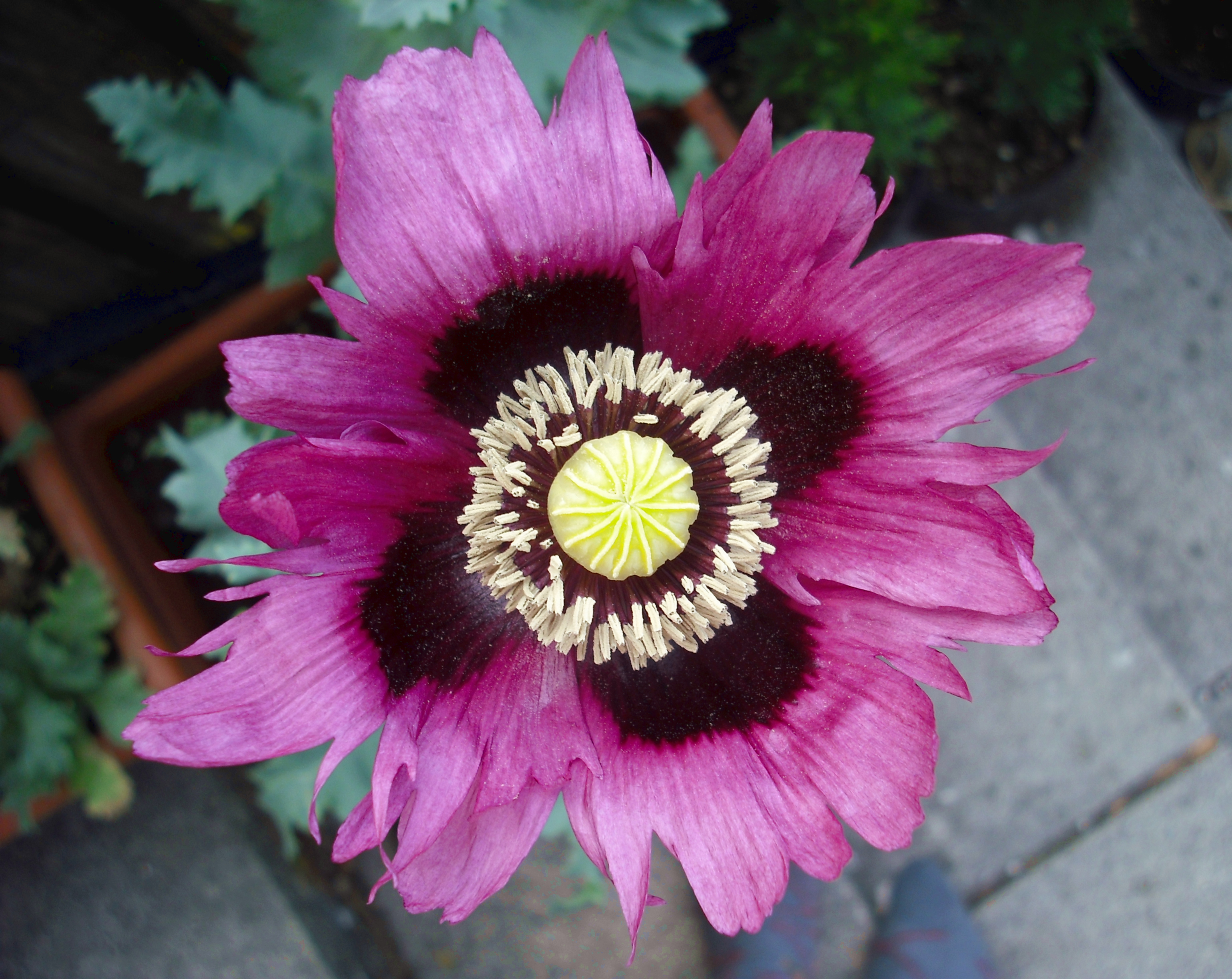 A purple/pink Opium Poppy (papaver somniferum) in flower.